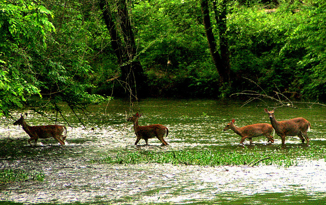 Deer cross the Eno River